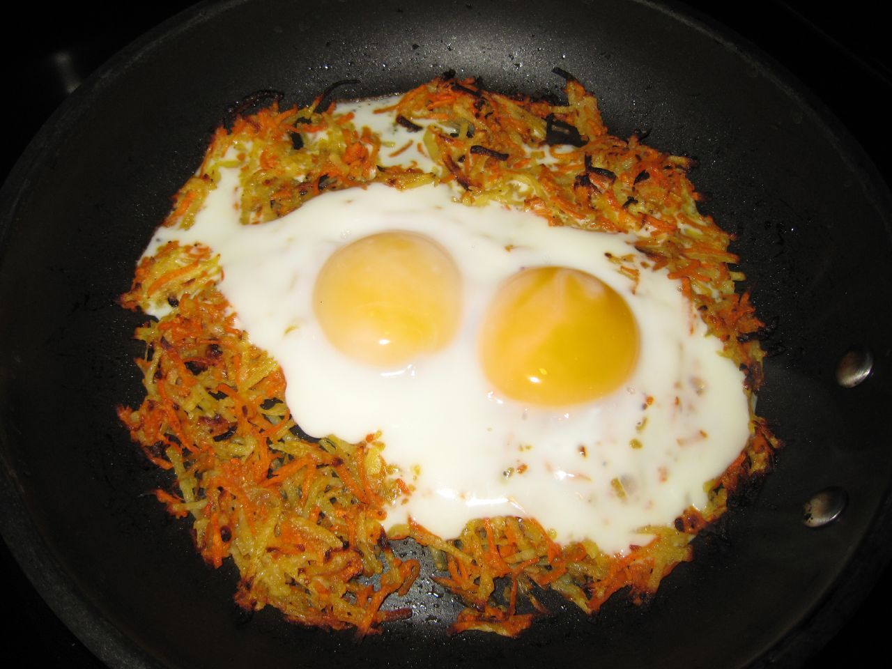 Yukon Gold Potato, Sweet Potato and Onion Hash Browns with Sunnyside Up Fertile Eggs